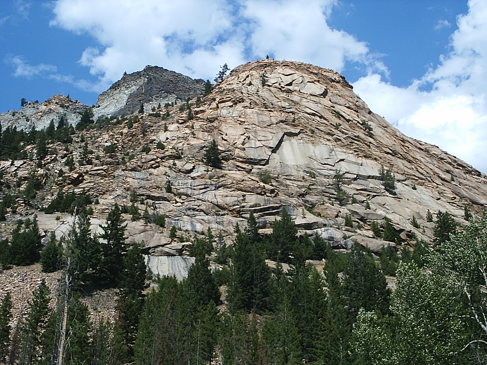 Cliffs at Lost Creek State Park, near Anaconda, Montana. Taken by John David Stutts, summer 2008.